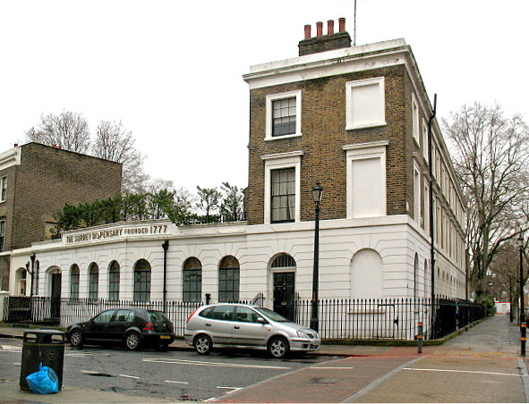 The Surrey Dispensary, Trinity Street The Surrey Dispensary was opened in 1777 in Union Street, and was "a charitable institution for gratuitously attending lying-in women and providing medical and surgical aid to the poor inhabitants of the borough of Southwark and places adjacent." It moved to this site off [Great] Dover Street in 1840. Sources: ; The building is now a private house. It was offered for sale for £2,950,000 in 2012.